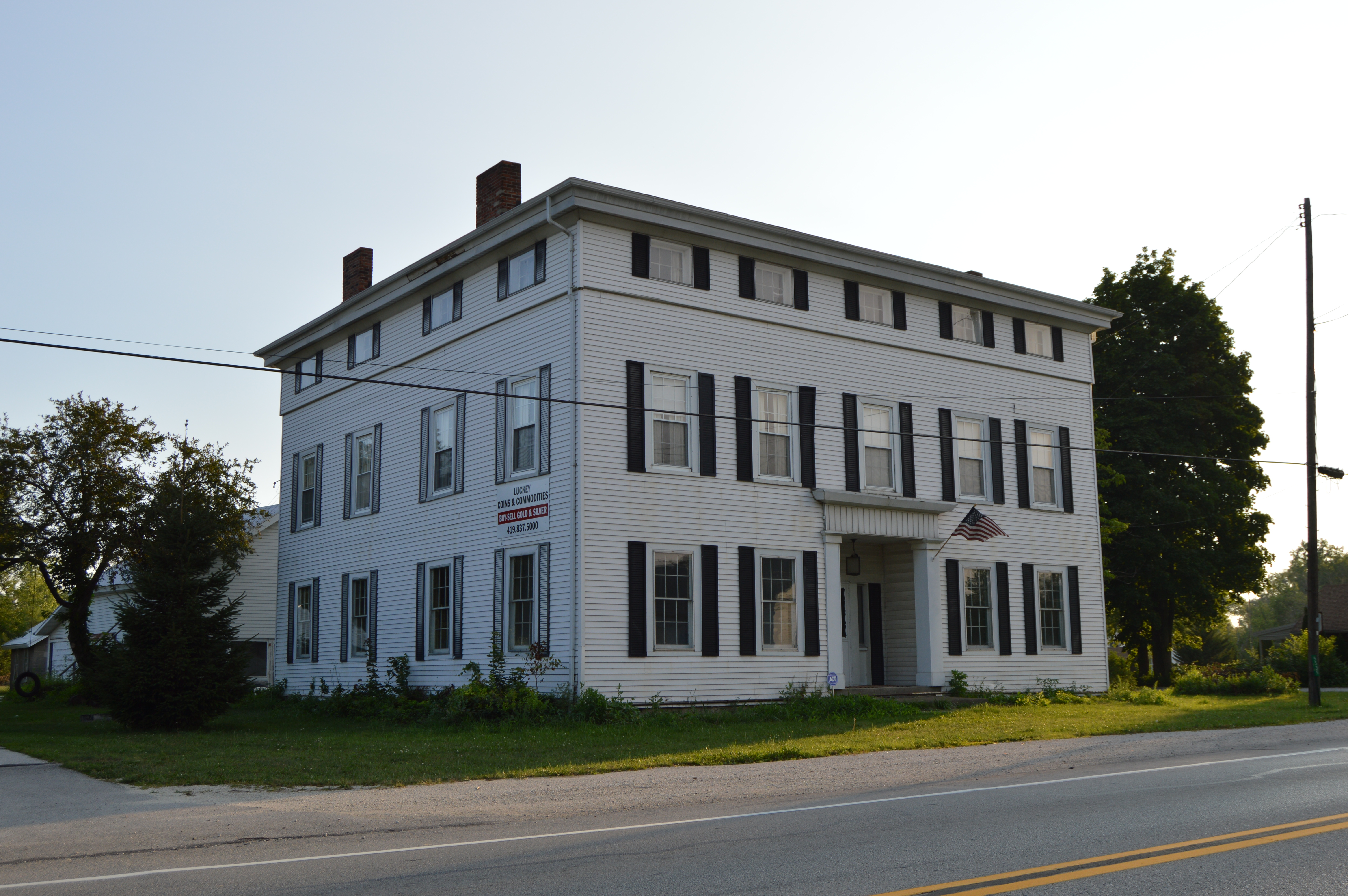 Front and eastern side of the Empire House, located at 5535 U.S. Route 20 at Stony Ridge in Troy Township, Wood County, Ohio, United States. Built in 1848, it is listed on the National Register of Historic Places.